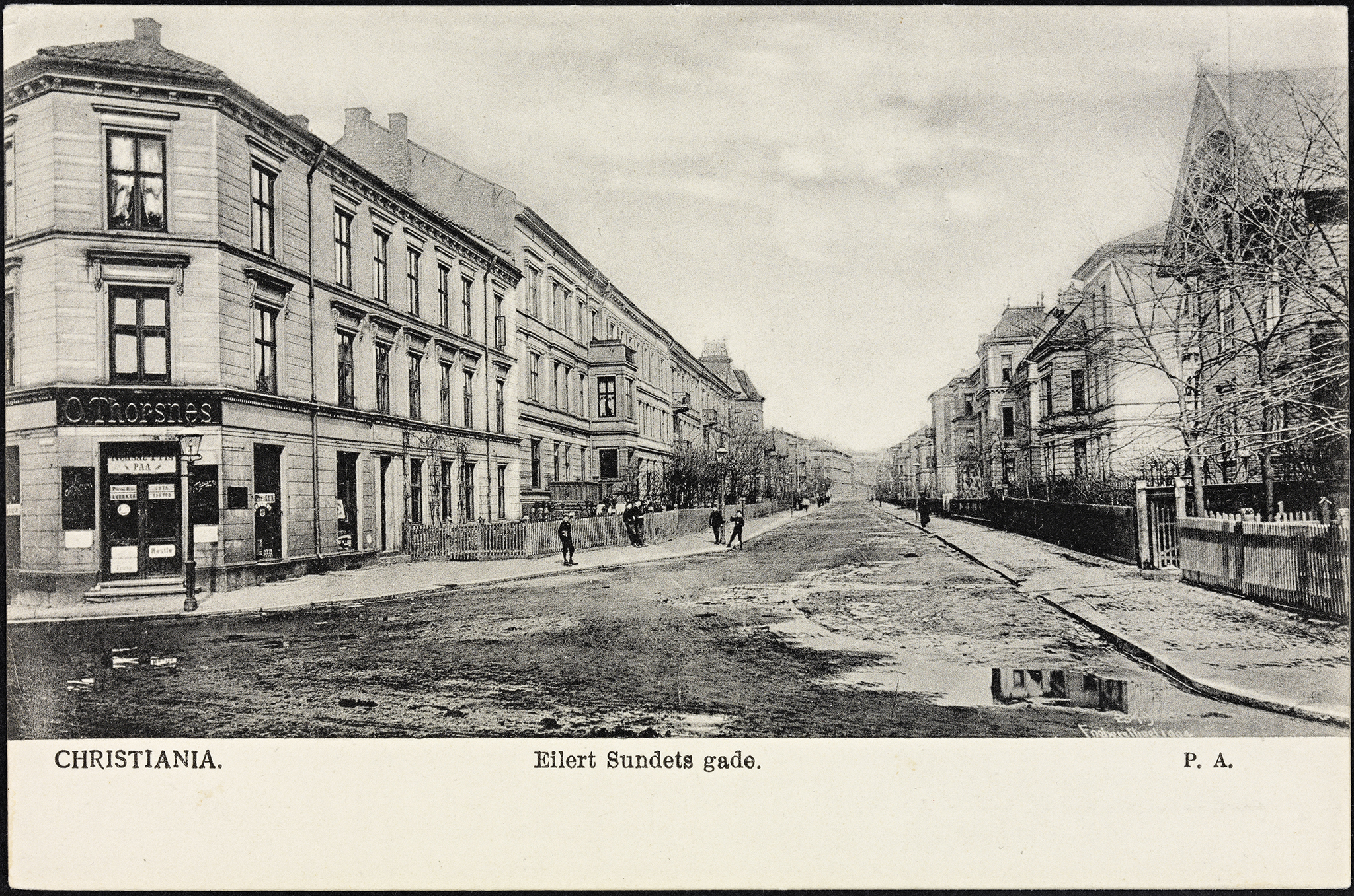 Tittel / Title: Eilert Sundets gate, Christiania Beskrivelse / Description: Postkort / postcard. Dato / Date: ca 1904 Fotograf / Photographer: P. A. Utgiver / Publisher: Schönbergs Kortforlag (Christiania) Sted / Place: Oslo, Frogner bydel, Briskeby, Eilert Sundts gate Eier / Owner Institution: Nasjonalbiblioteket / National Library of Norway Lenke / Link: Bildesignatur / Image Number: bldsa_PK00351